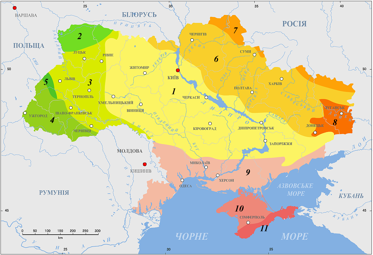 Tectonic structure of Ukraine 1. Ukrainian Shield 2. Kovel salient 3. Volyn-Podilla plate 4. Carpathian fold and thrust belt 5. West-European platform 6. Dnieper-Donets rift 7. Voronezh massif 8. Donets fold belt 9. Black Sea depression 10. Scythian plate 11. Crimean fold and thrust belt Київ=Kiev; Дніпропетровськ=Dnipro; Полтава=Poltava; Харків=Kharkiv; Донецьк=Donetsk; Одеса=Odessa; Сімферополь=Simferopol; Росія=Russia; Білорусь=Belarus; Польща=Poland; Румунія=Romania; Молдова=Moldova; Чорне море=Black Sea.